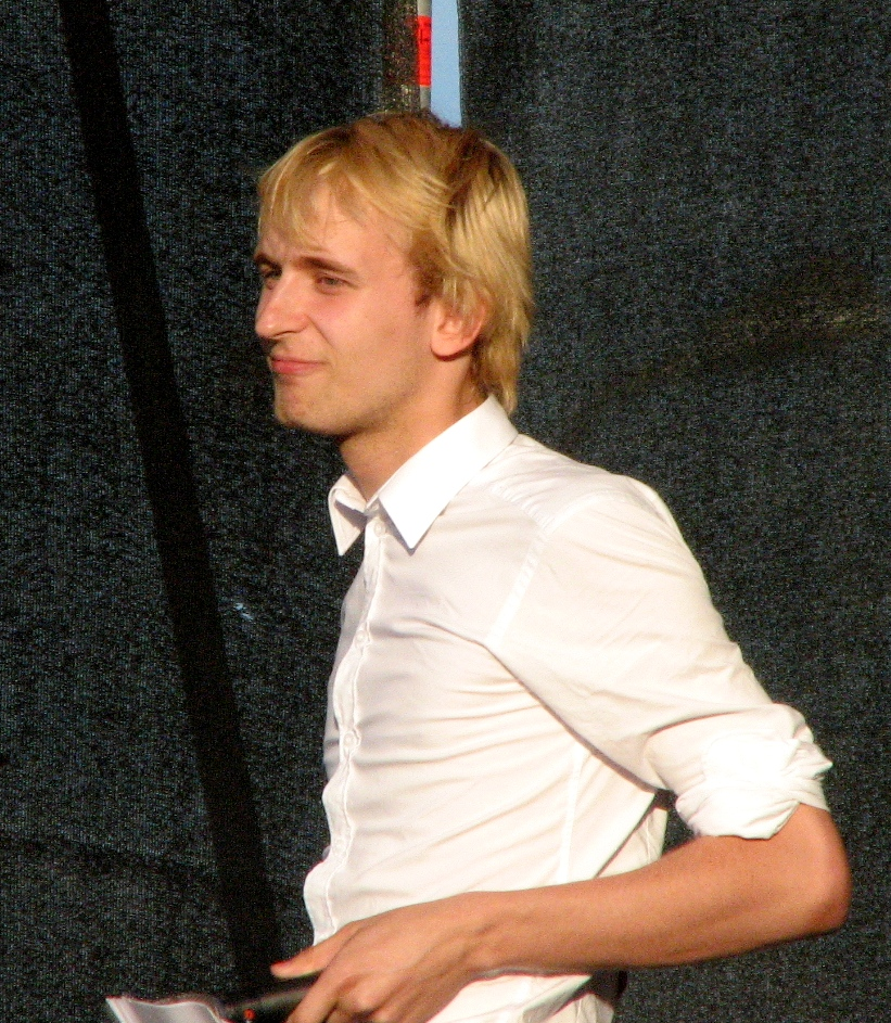 Robin Juhkental performing in Tallinn’s Maritime Days